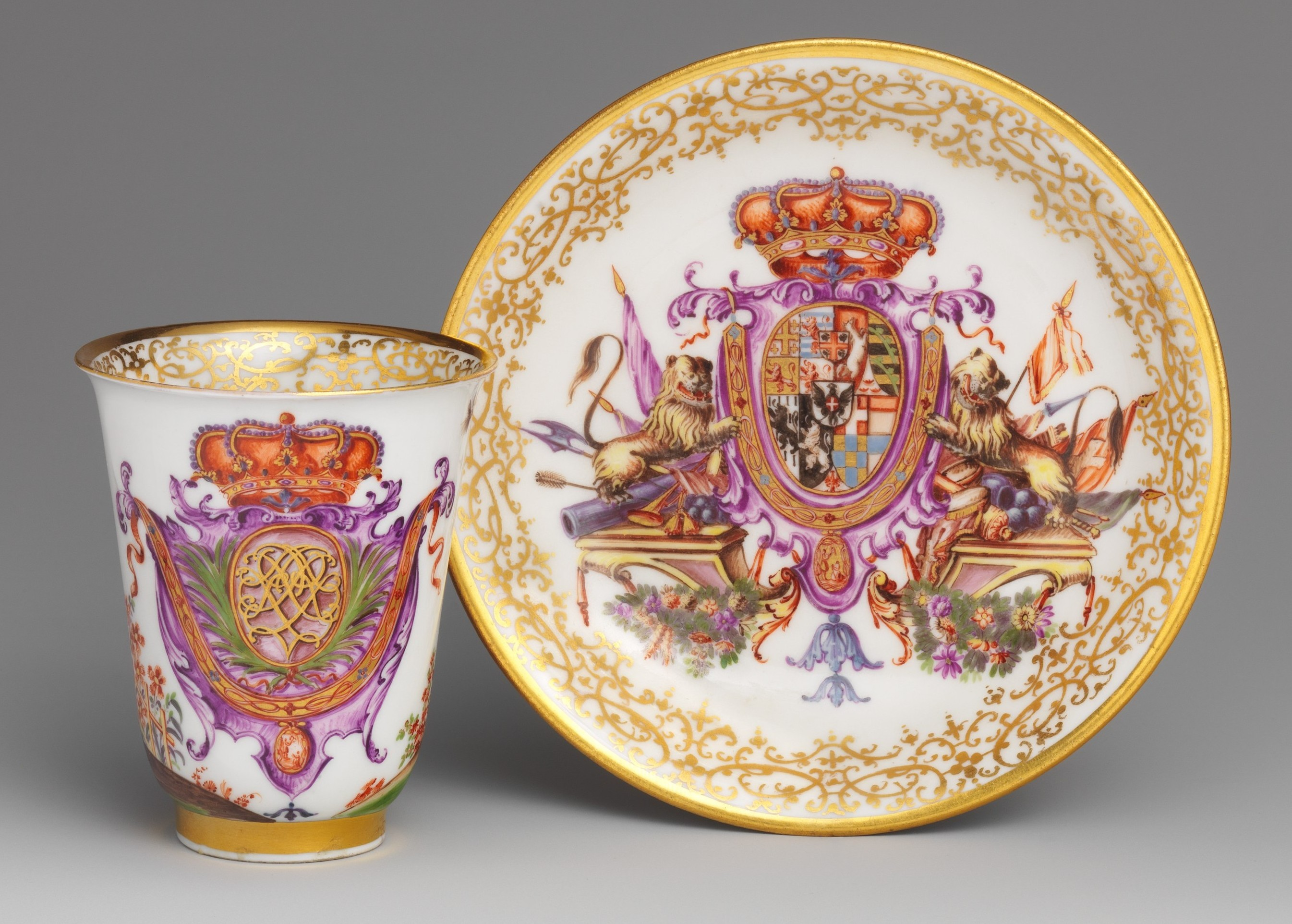 German, Meissen; Beaker; Ceramics-Porcelain, "part of a tea and chocolate service given to Vittorio Amadeo II, King of Sardinia (1666-1732) by Augustus the Strong, the Elector of Saxony."